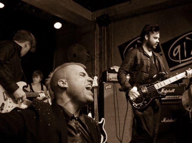 Neon Trees mid-performance at a special 91x radio performance at 710 Beach Club in Pacific Beach, San Diego, California. March 22nd, 2010. Photo by Anthony Minh Tran.